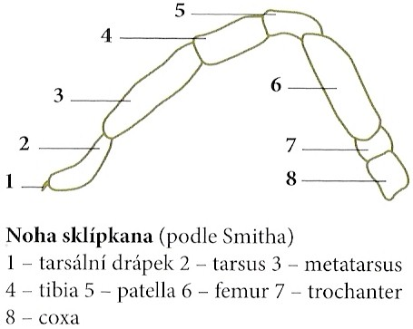 Noha sklipkana